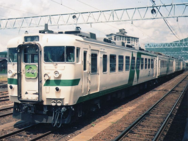 JNR 169 series EMU in "New Express" livery with "Kamoshika" express headboard at Kamisuwa Station